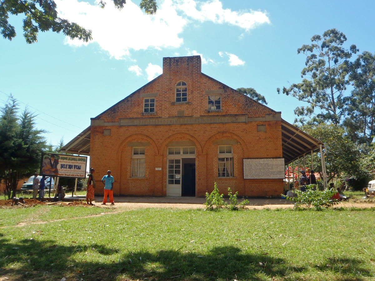 Main building of the David Gordon Memorial Hospital, Livingstonia, Northern Region, Rumphi District, Malawi